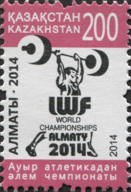 Stamps of Kazakhstan, 2014